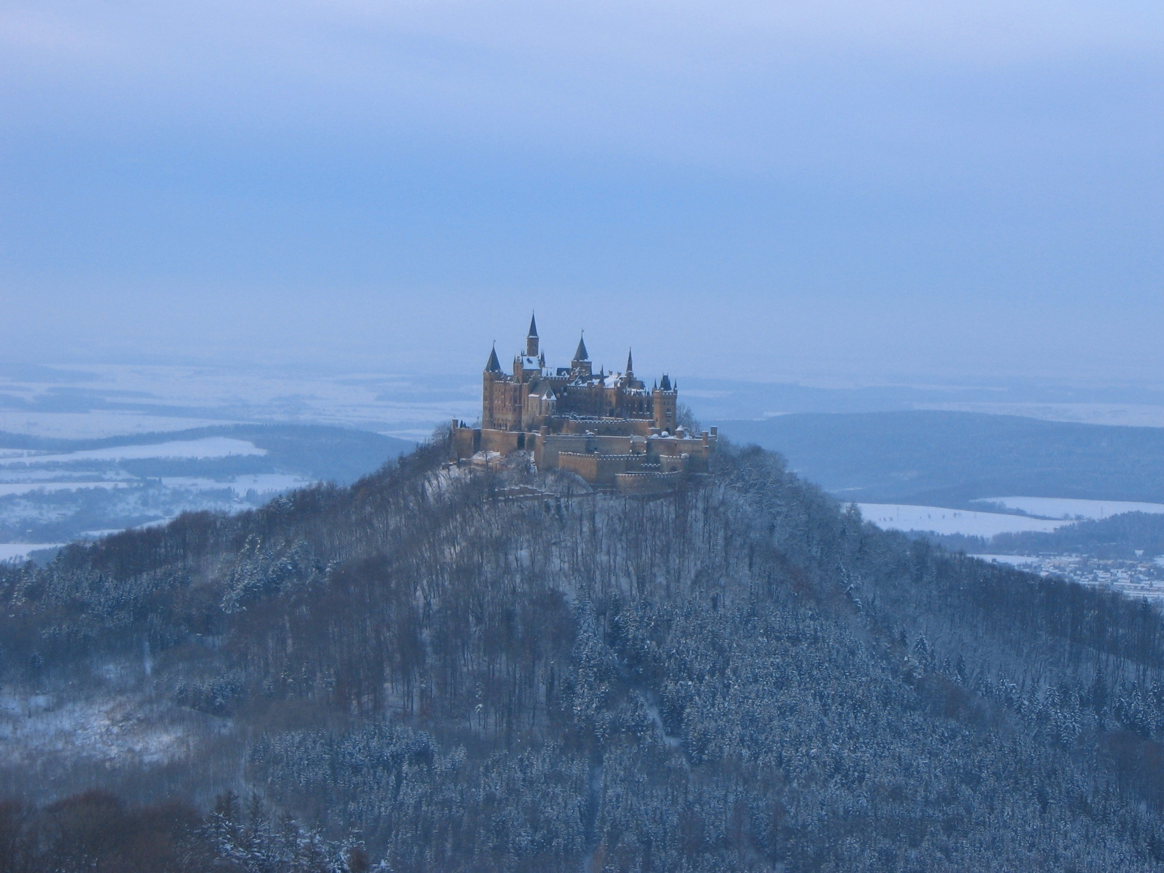 Castle Hohenzollern near Hechingen. View from "Zeller Horn" in winter.